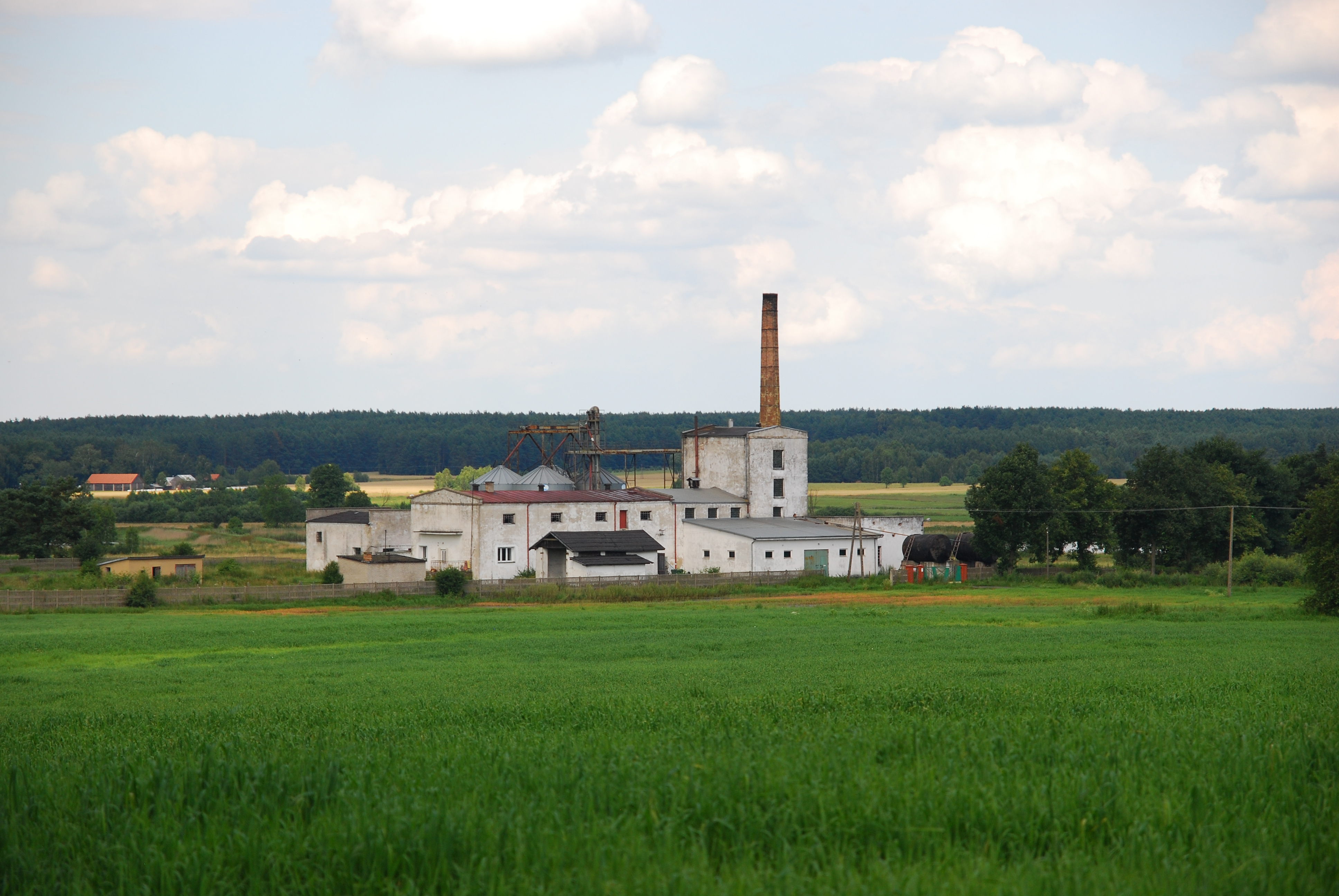 This photo from Podlaskie Voievodeship was taken during Polish Wikiexpedition 2009 set up by Wikimedia Polska Association. The making of this document was supported by Wikimedia Polska. Gorzelnia w Pokaniewie